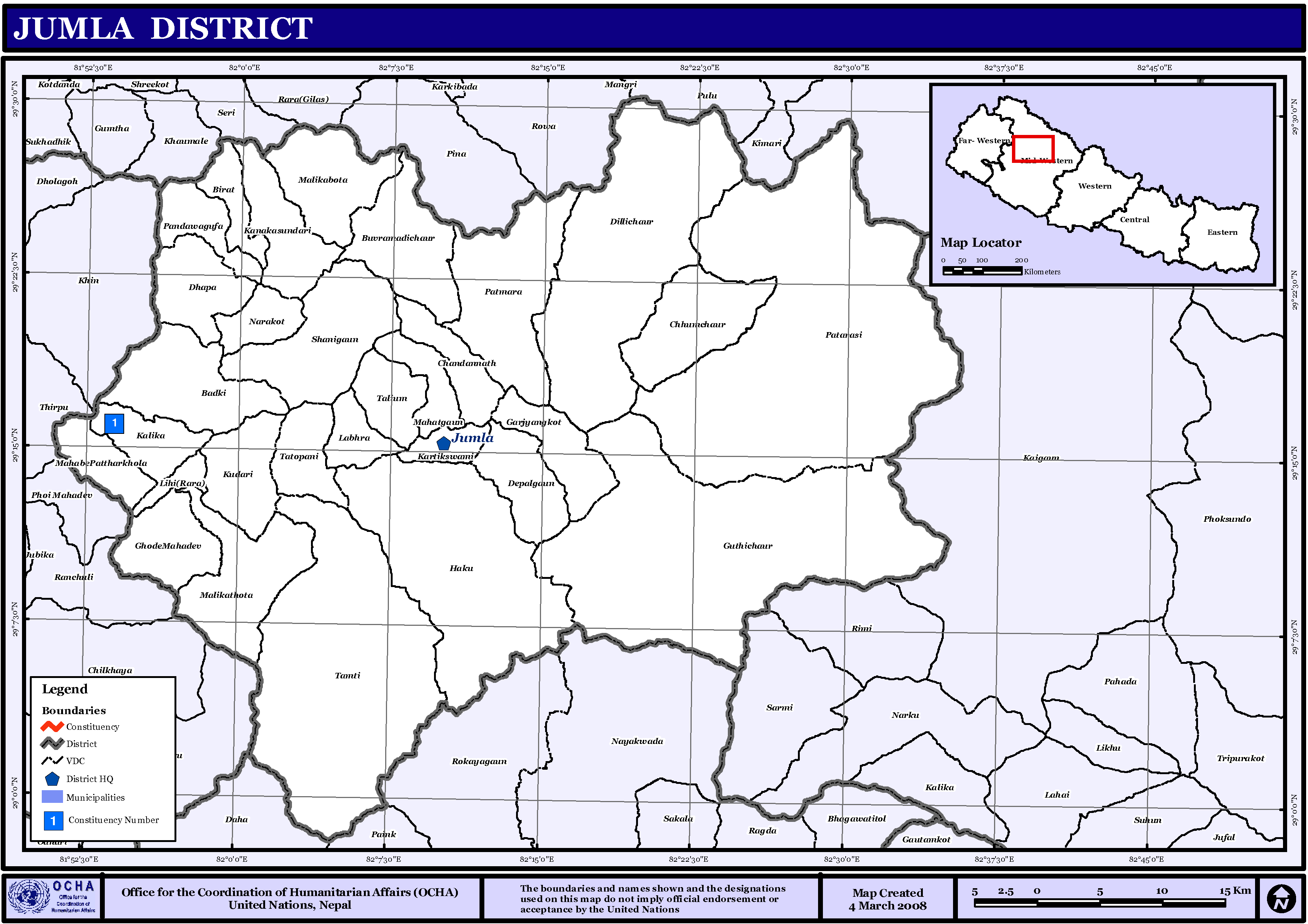 Map displaying Village Development Committees in Jumla District, Nepal